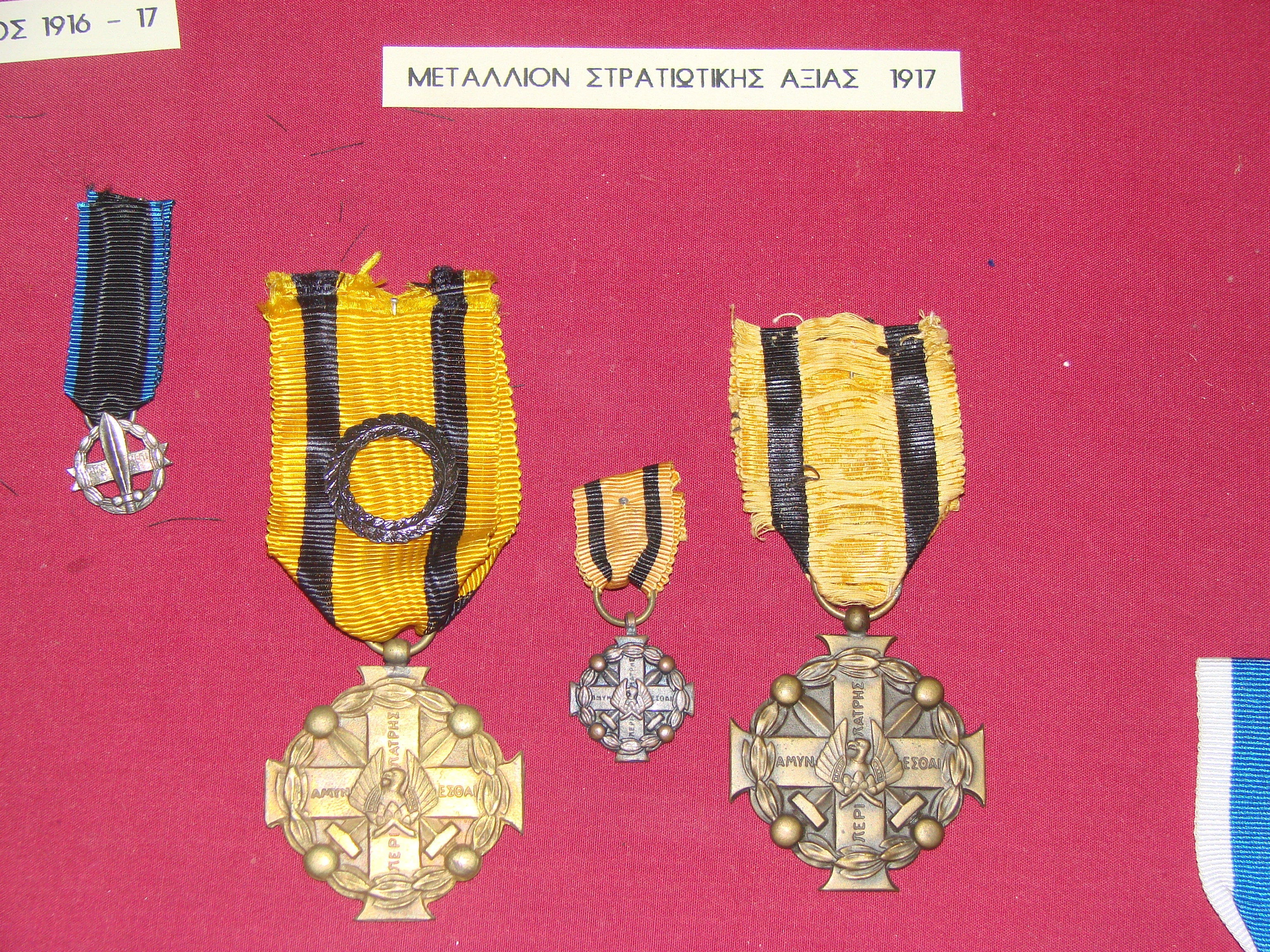 Greek Medal of Military Merit 1917, Hellenic Maritime Museum.